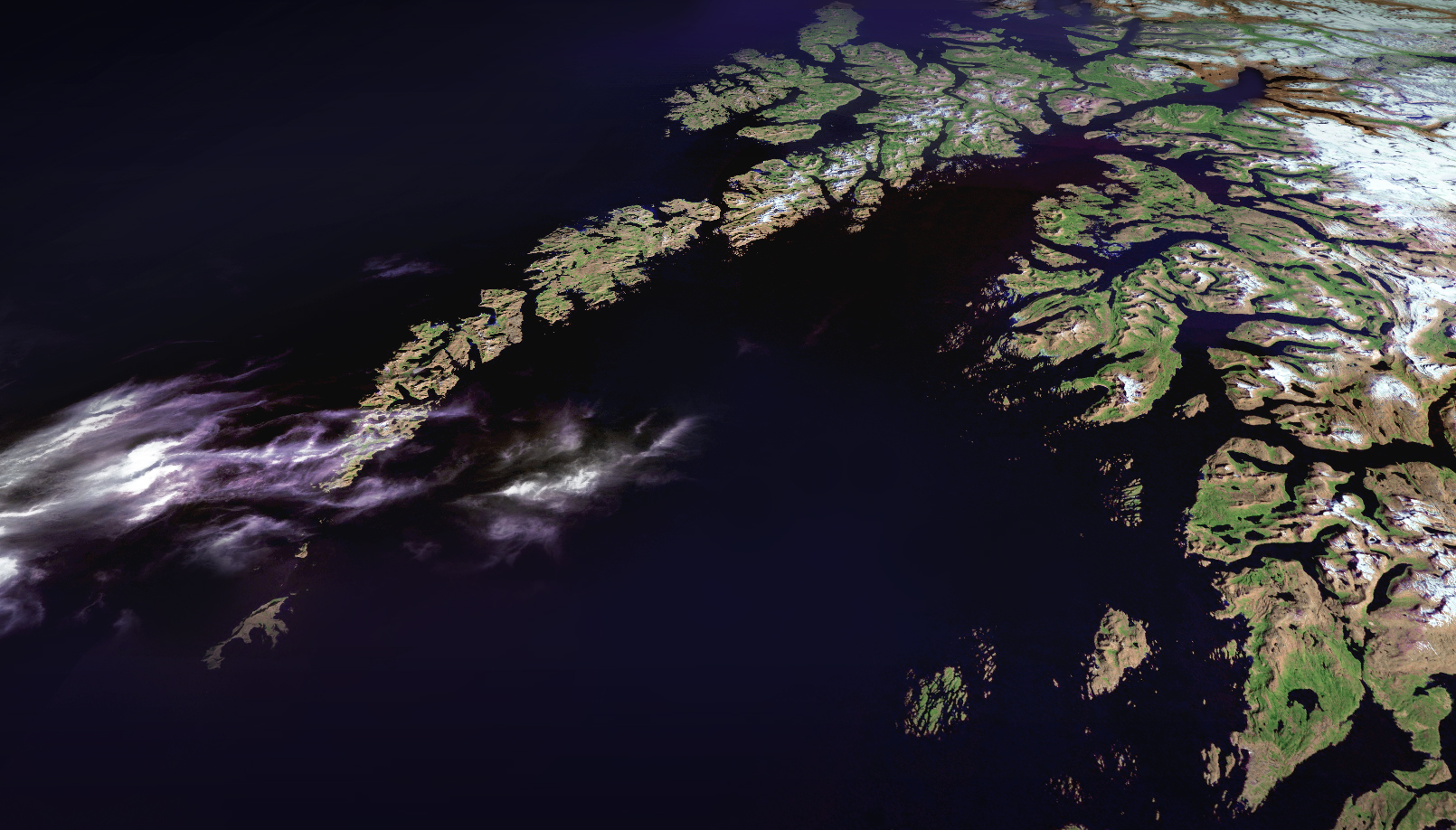 A view to Vestfjorden between Lofoten and Norway mainland (consisting of satellite images) in NASA World Wind. This is a personal creation from NASA World Wind program.